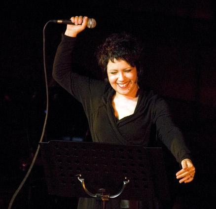 Antonella Ruggiero - live summer tour 2010